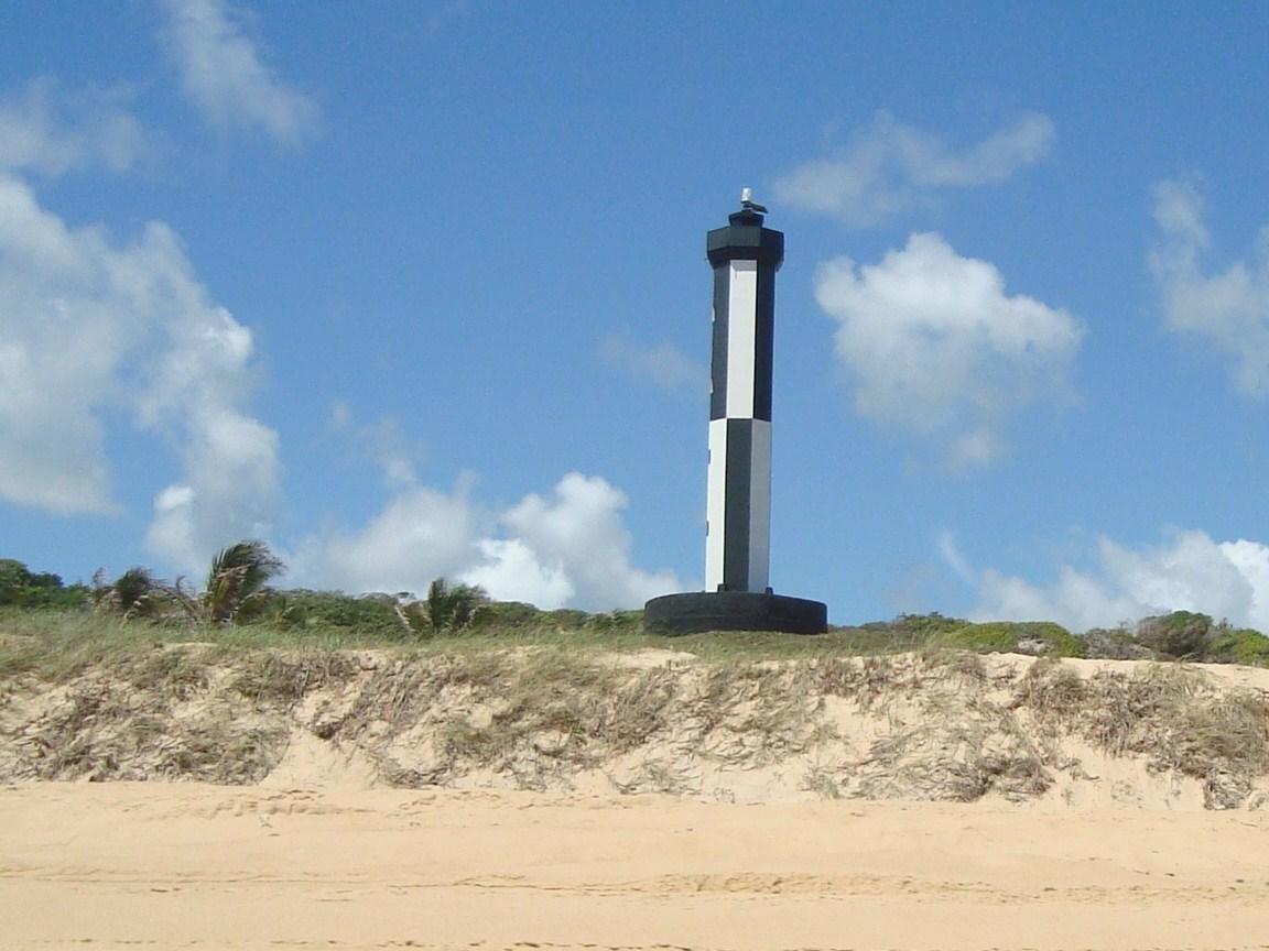 Bacopari Lighthouse located in Baia Formosa, Rio Grande do Norte, Brazil